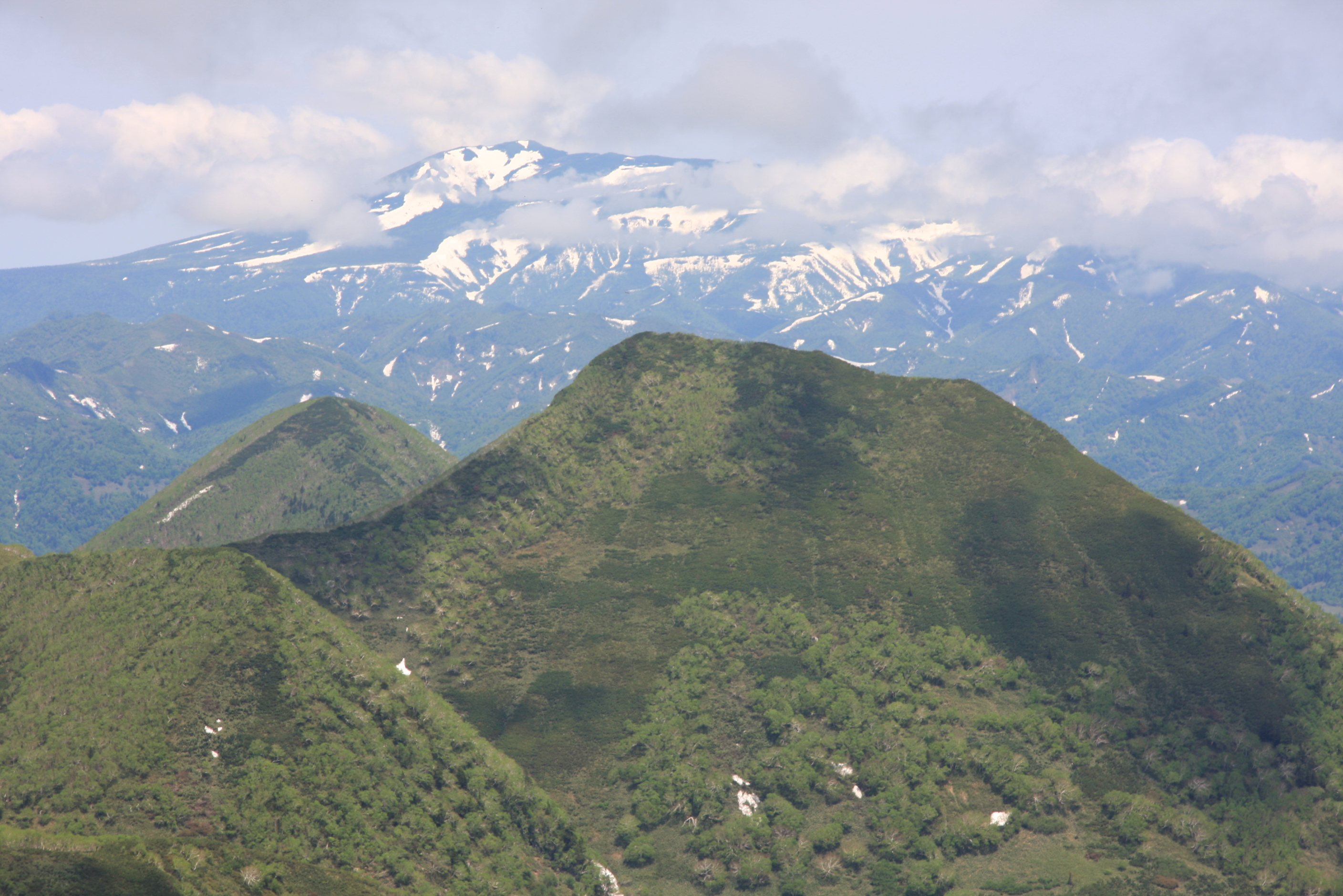 The South side of Mount Unabetsu (background) as seen from Mount Musa.